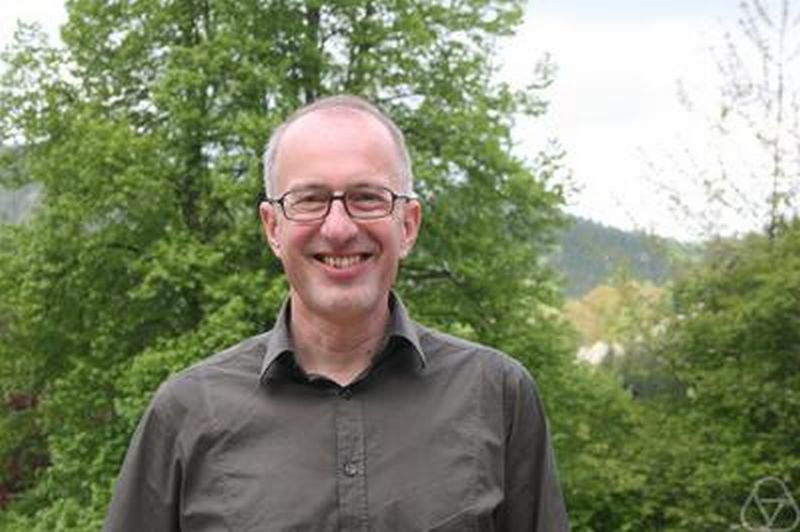 Steffen König, Oberwolfach 2013